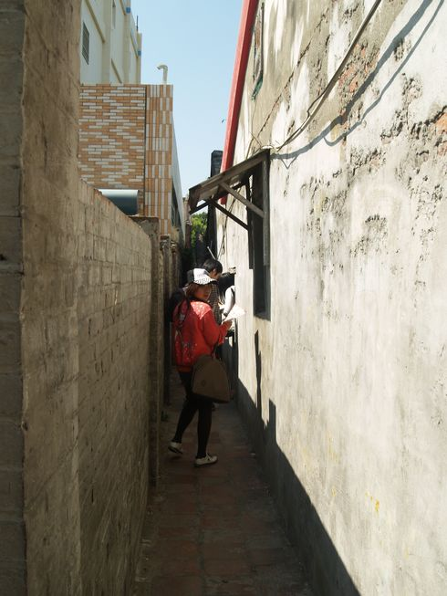 Lukang Touch Breast Lane 鹿港 摸乳巷 taken by ResTpeTw on March 2nd 2008.